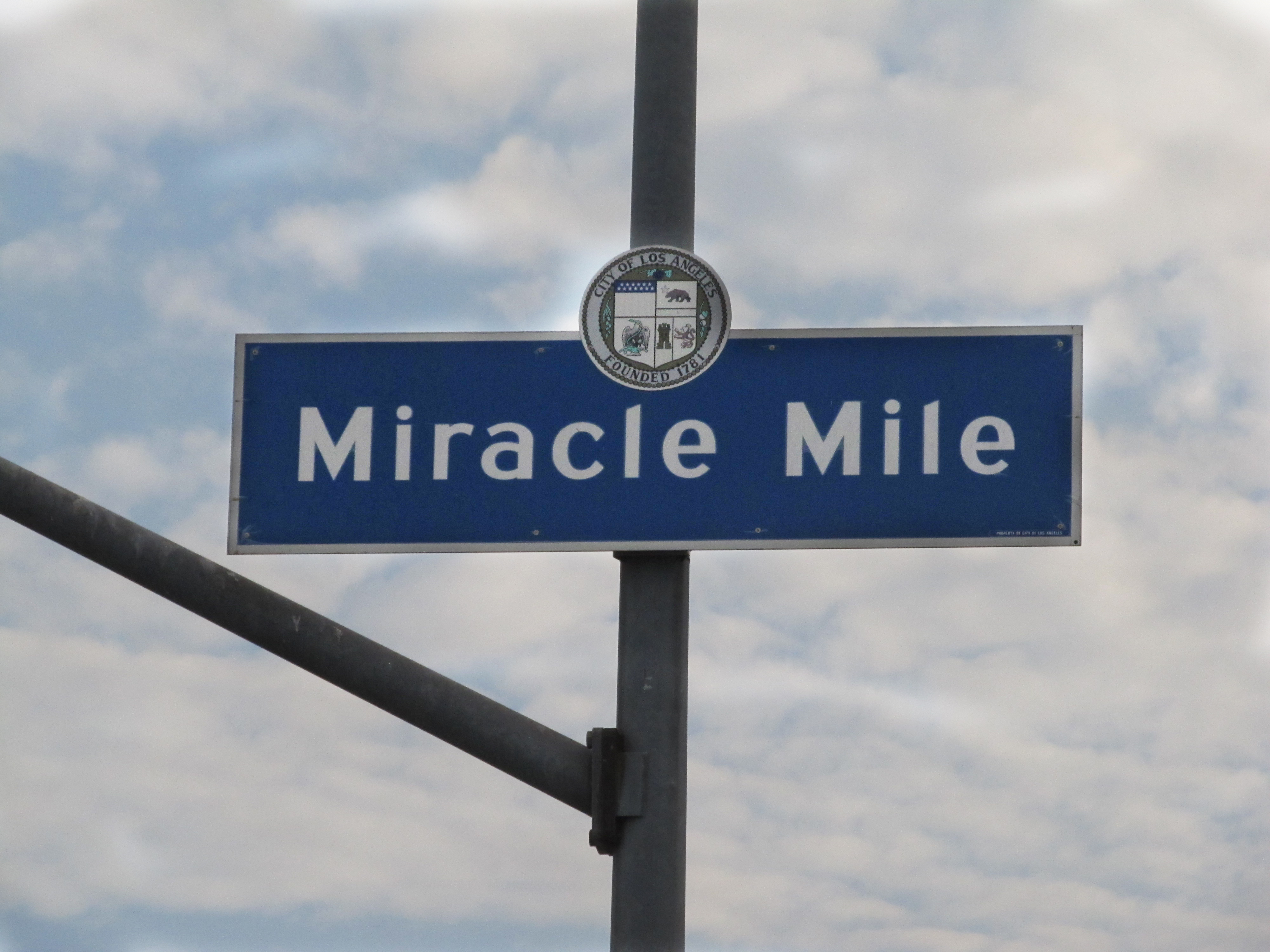 Miracle Mile Signage located at the intersection of San Vicente Boulevard and Hauser Street.